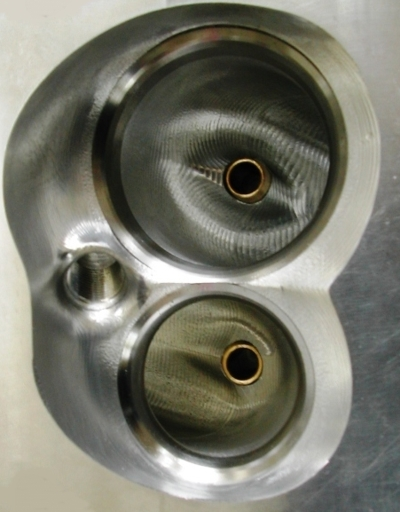 I am the author Photo taken in 2007